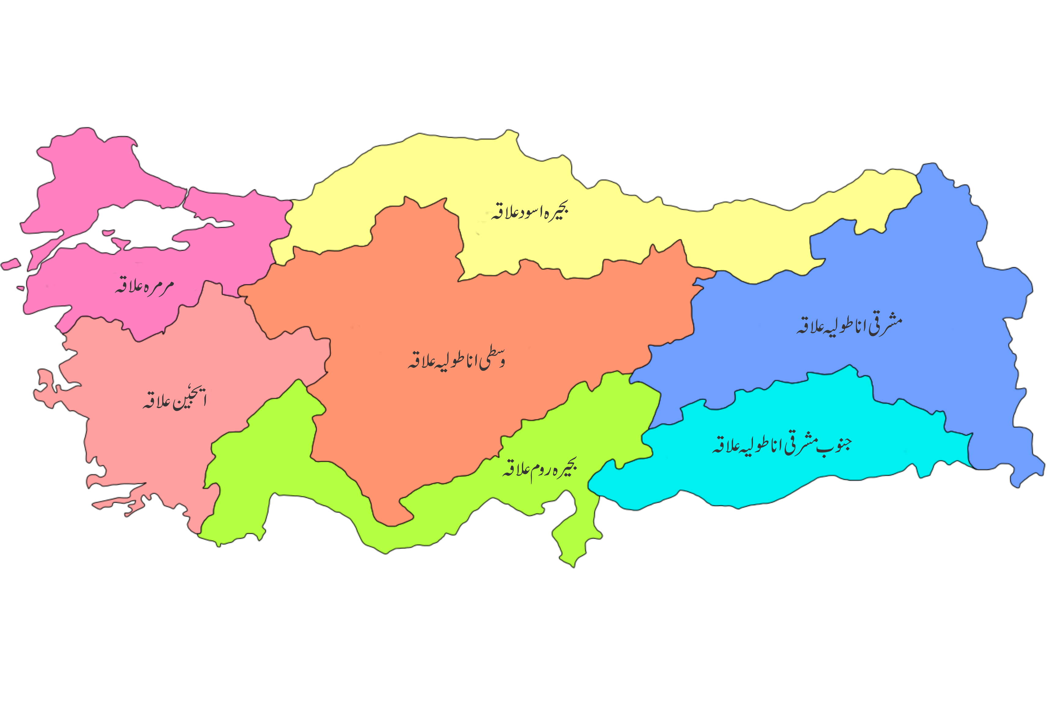 Geographical regions of Turkey